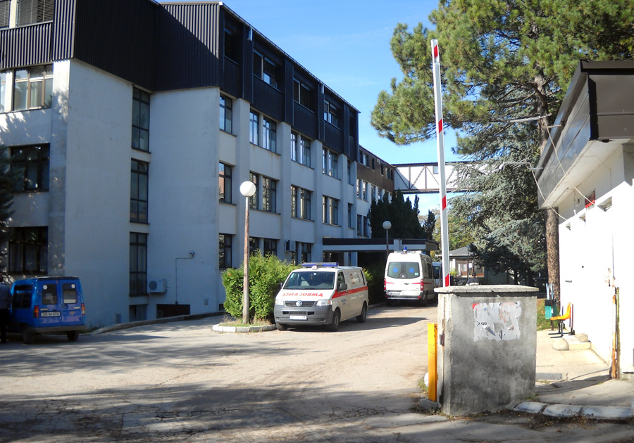 Hospital in Livno